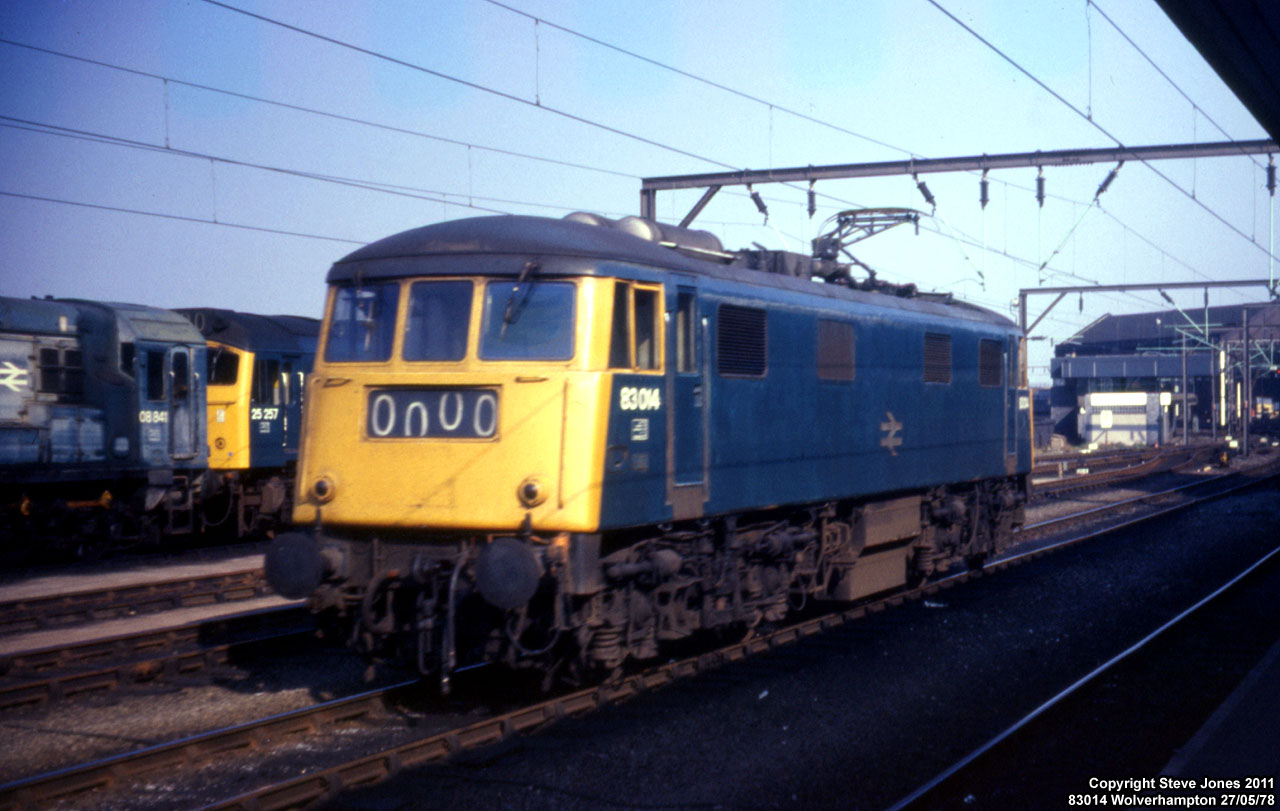 83014 at Wolverhampton on 27th May 1978. Scanned from a Boots Colourslide II transparency taken with an old compact camera.